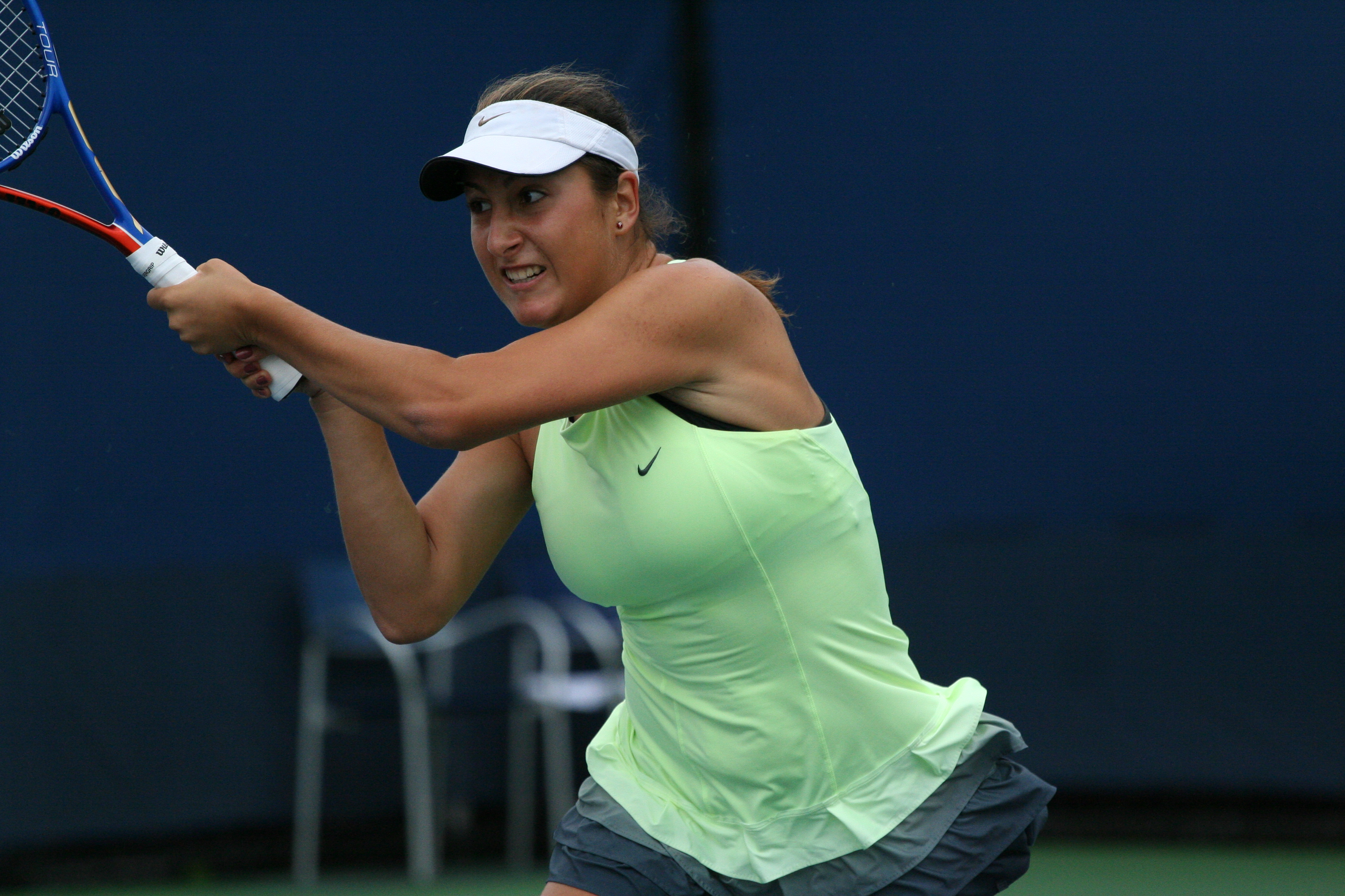 U.S. Open Juniors Sept. 9, 2010